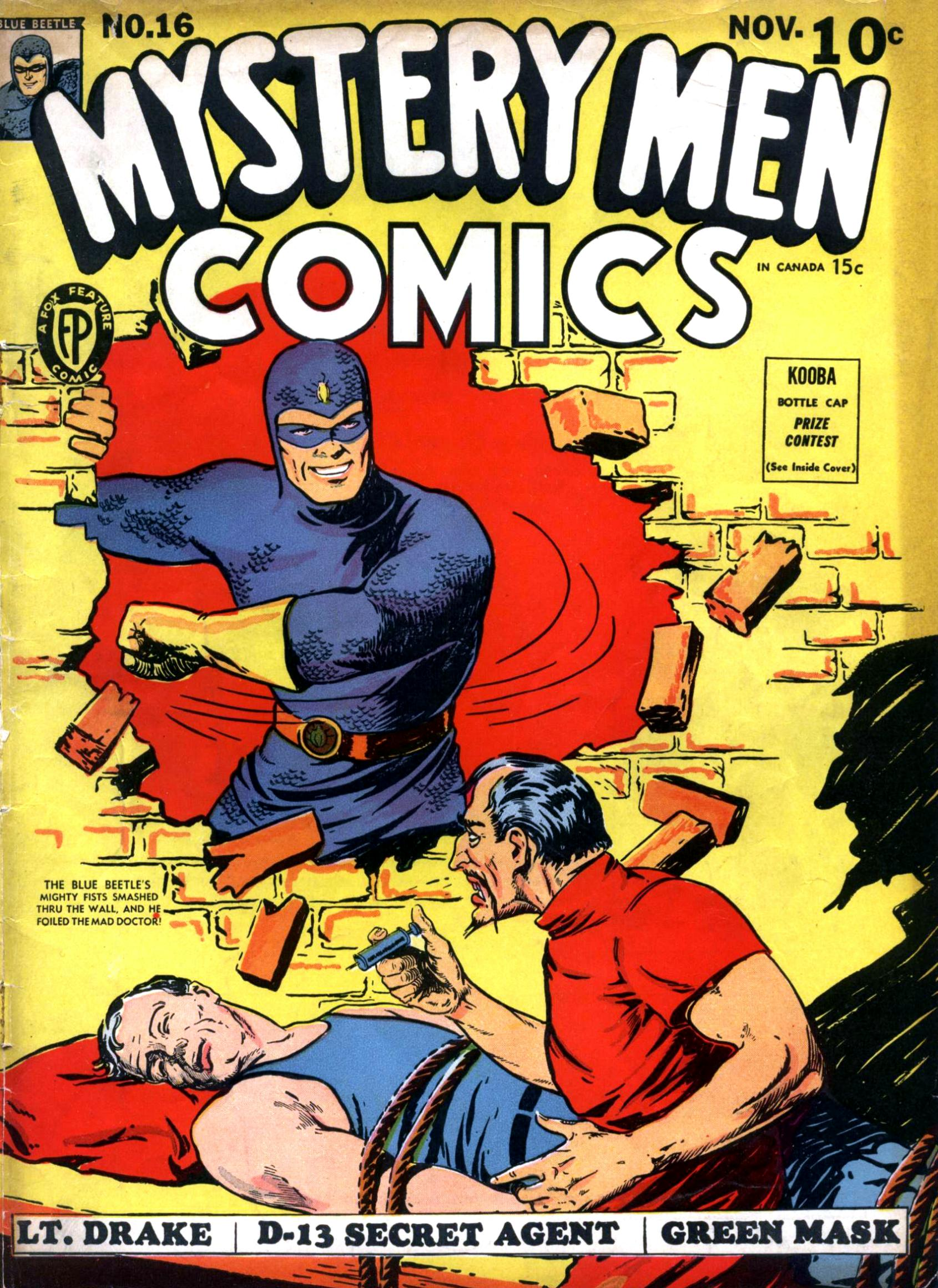 Cover scan of Mystery Men Comics, No. 16, Fox Features Syndicate.